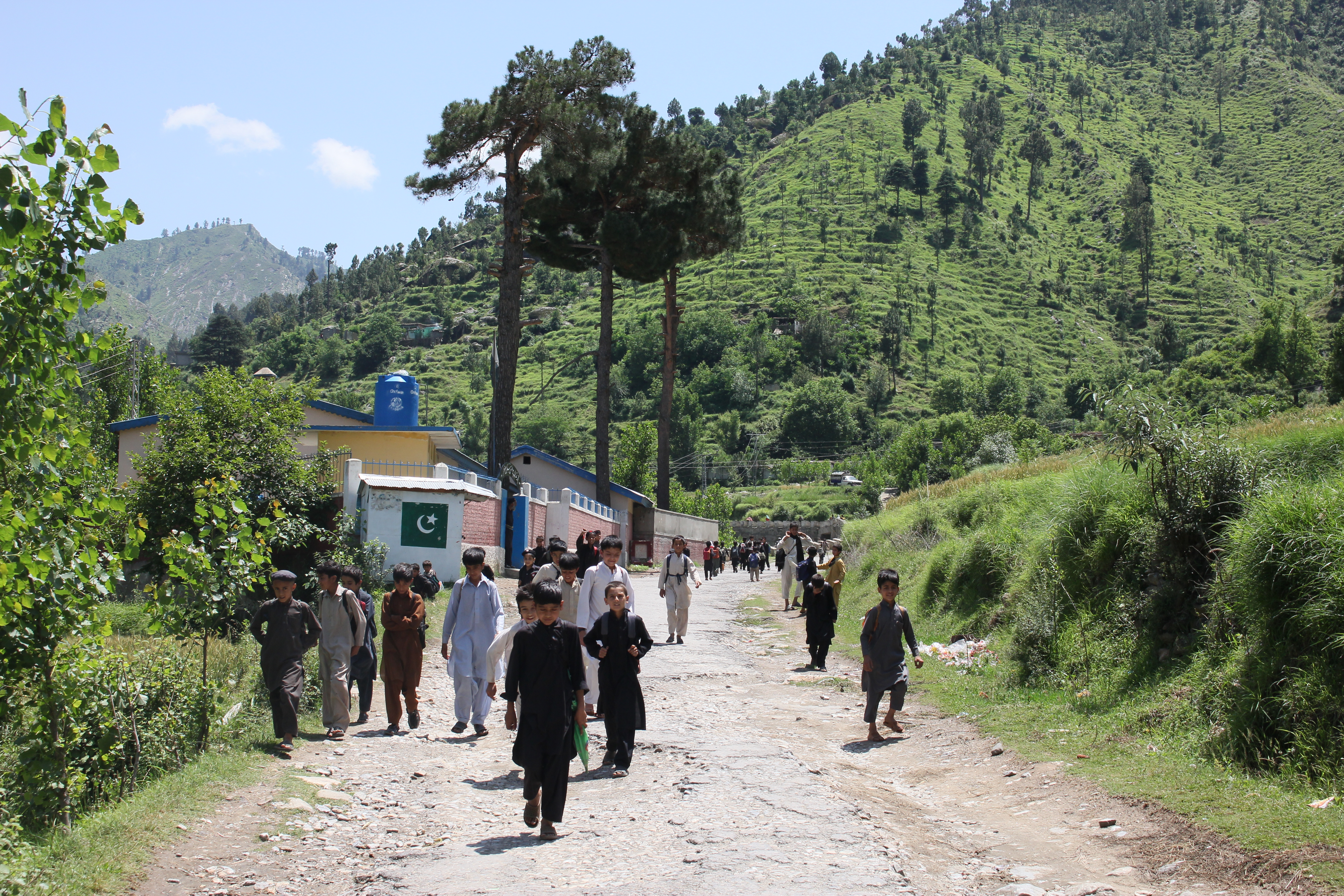 the above photo is captur in same village marghazar KP Pakistan , in the given photo, children iof school can be seen , they are on way back home in joyfull way